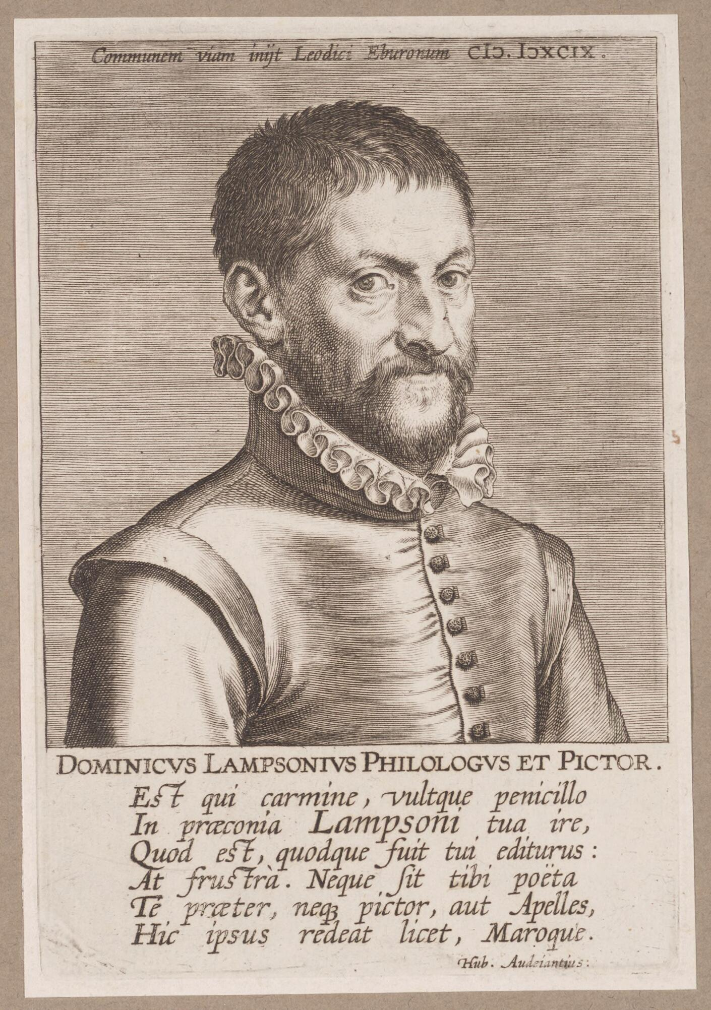 Lampsonius